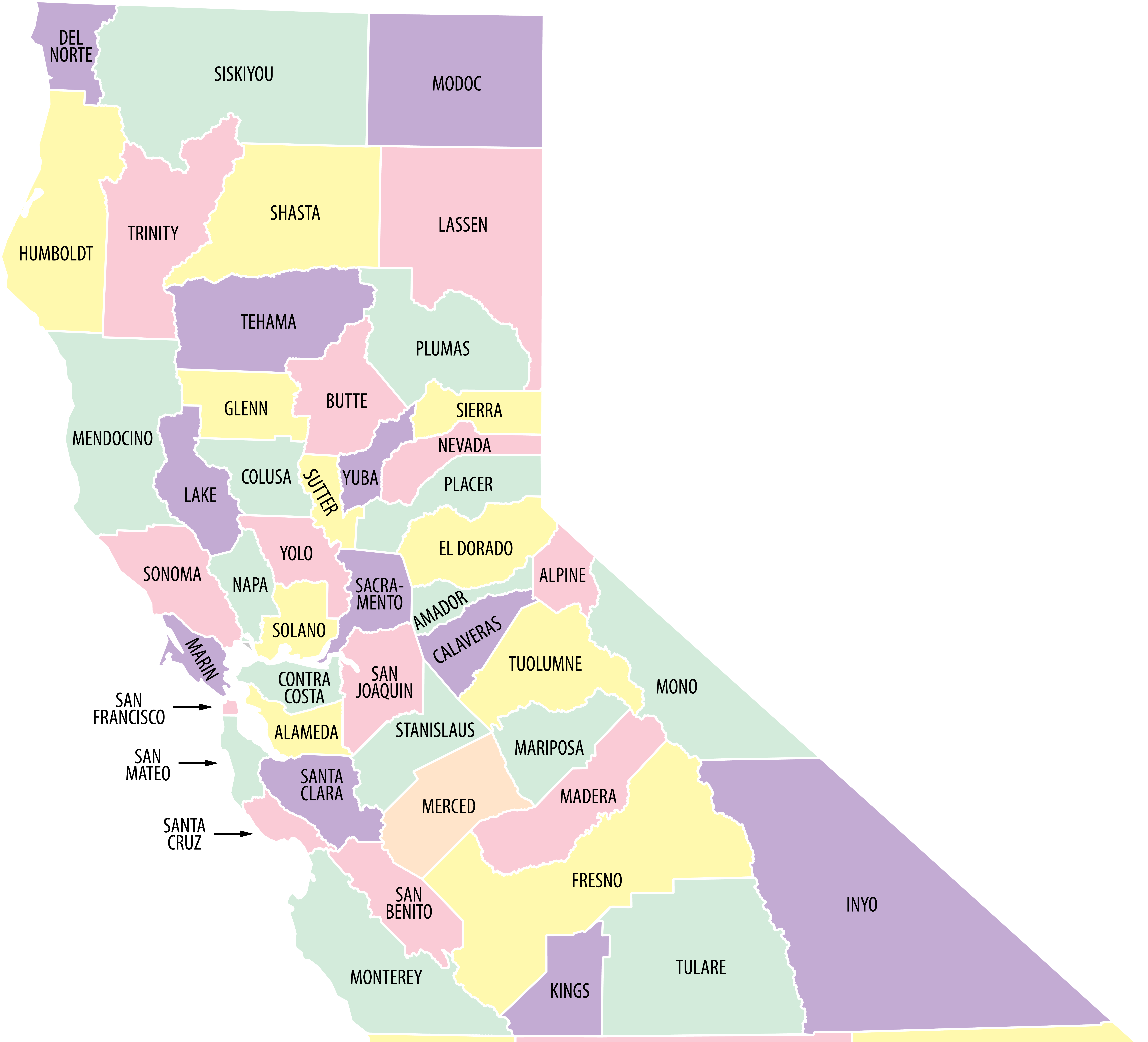 NorCal county map (labeled and colored).